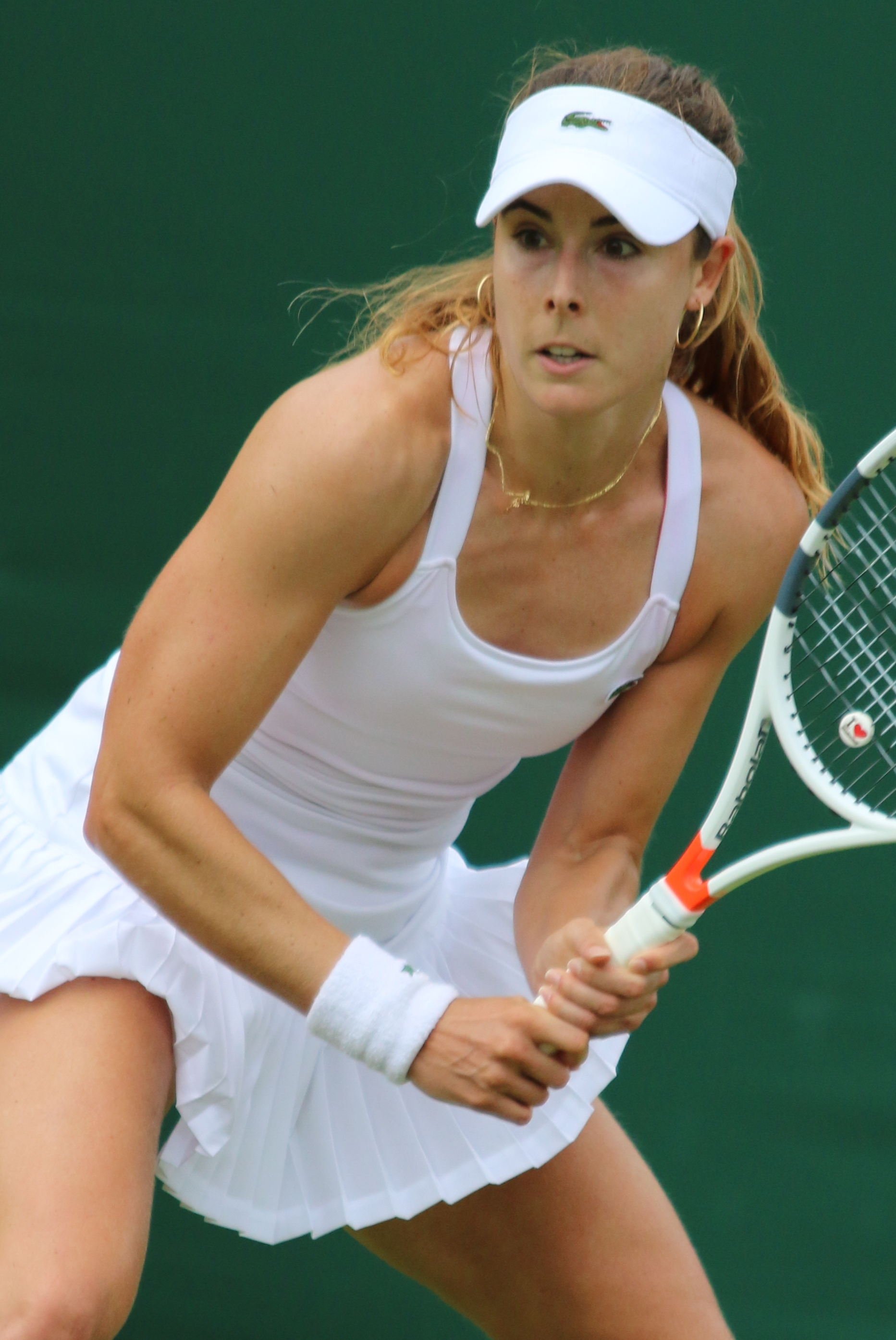 Cornet WM17 (15)